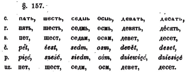 A fragment from the book "Uzajemni Pravopis Slavjanski" by Matija Majar-Ziljski